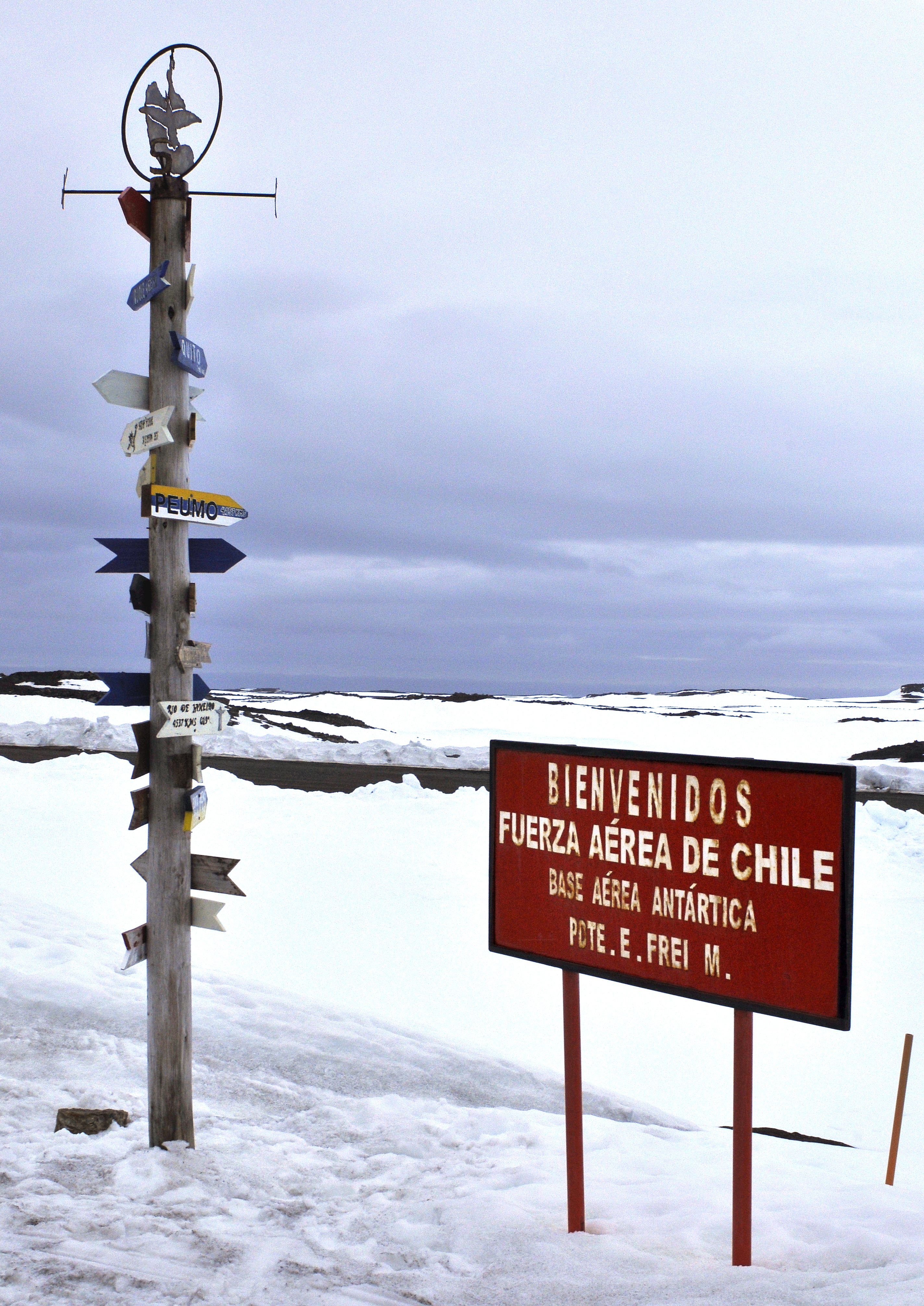 Signs in the "Presidente Eduardo Frei Montalva" Station. King George Island, South Shetland Islands, Antarctica